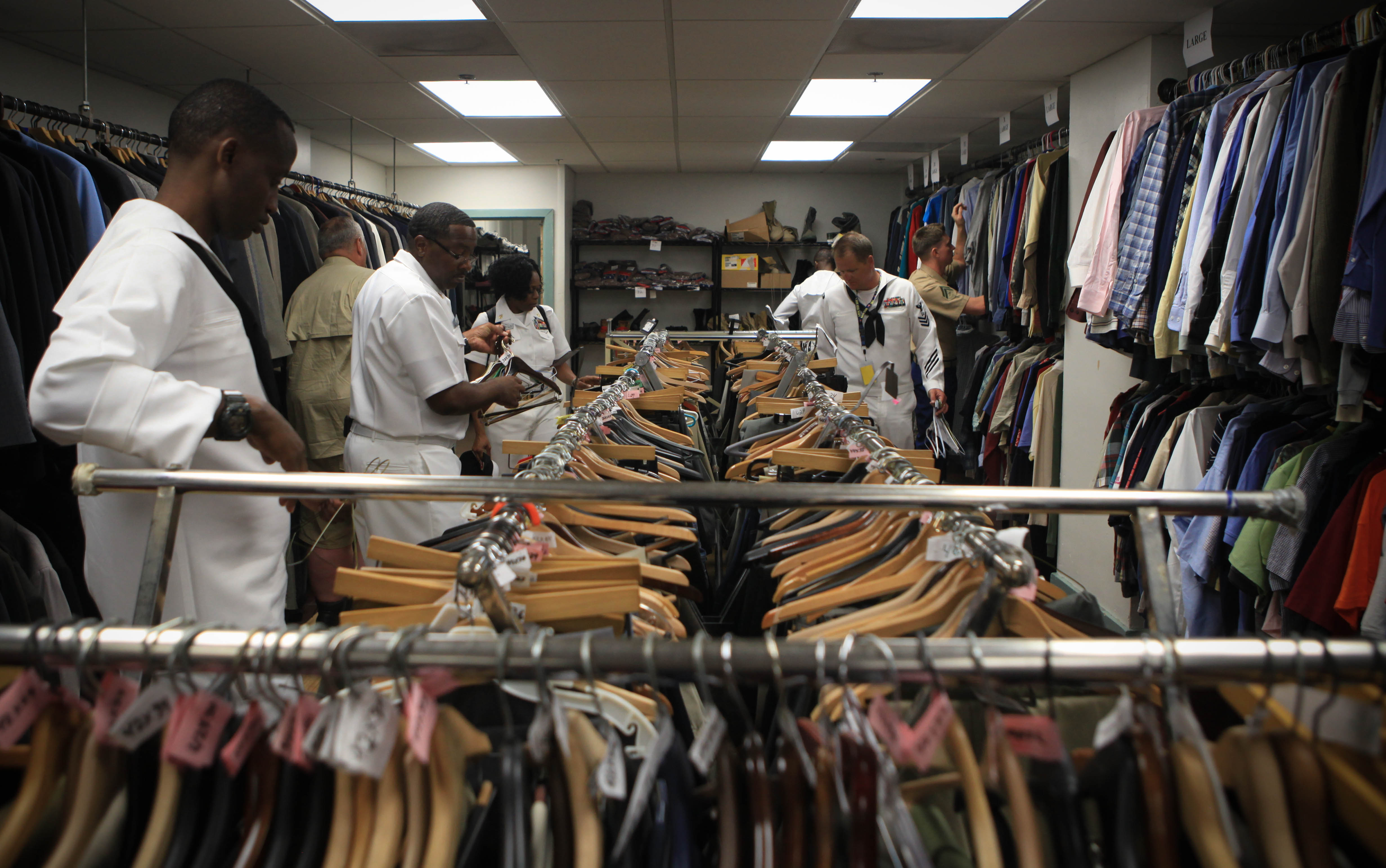 BOSTON (June 29, 2012) Marines and Sailors sort and organize hundreds of clothing items at the New England Center for Homeless Veterans. Best friend shirts The service members spent the day serving meals and eating with many of Boston’s veterans during Boston Navy Week. Boston Navy Week is one of 15 signature events planned across America in 2012. The eight-day long event commemorates the Bicentennial of the War of 1812, hosting service members from the U.S. Navy, Marine Corps and Coast Guard and coalition ships from around the world. (U.S. Marine Corps photo by Cpl. Marco Mancha/Released)